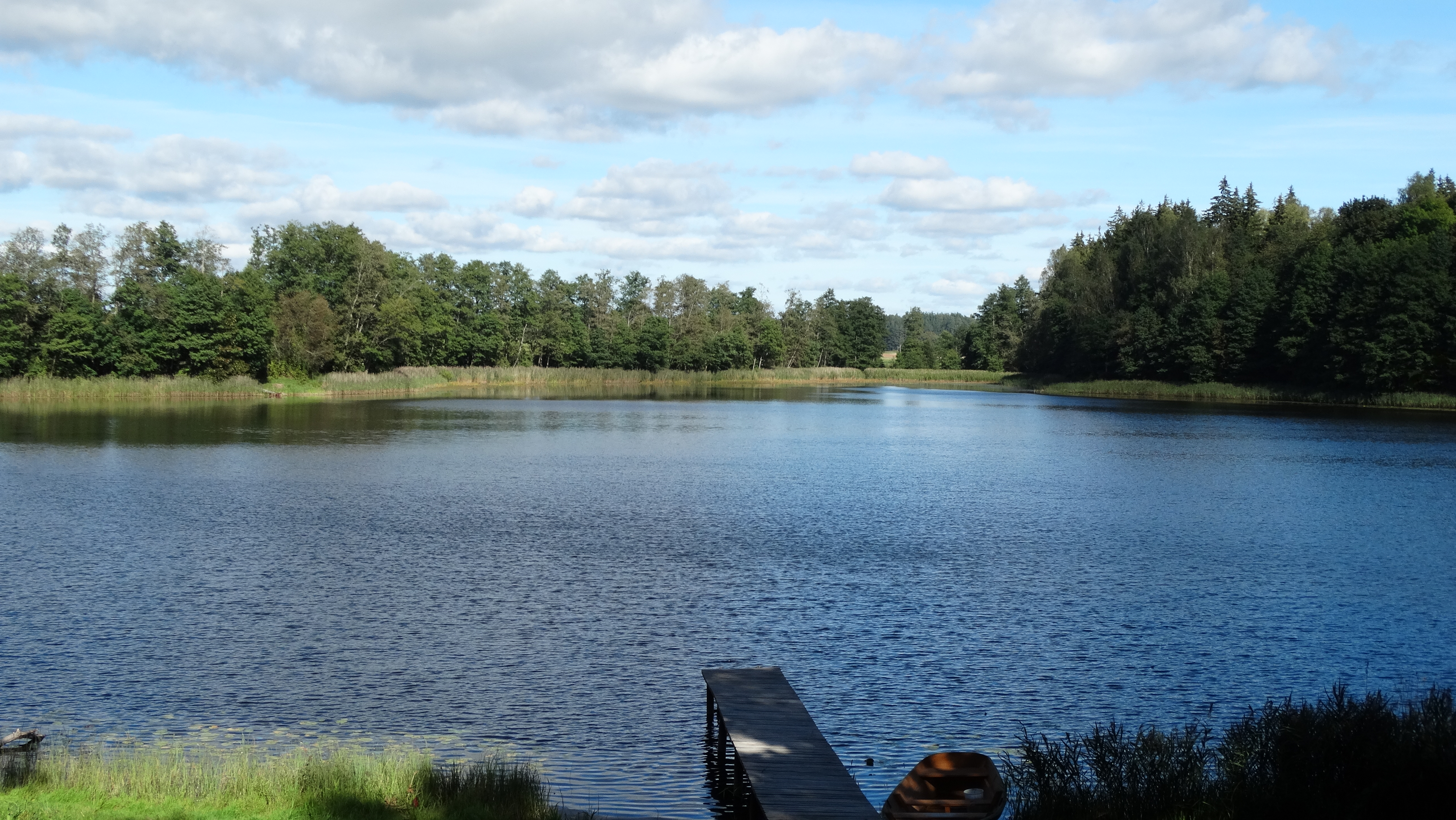 Alekniškis Lake, by Polekniškis, Utena District, Lithuania